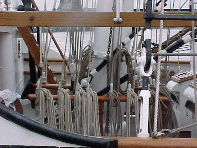 on board of the French threemast barque Belem (launched in 1896)